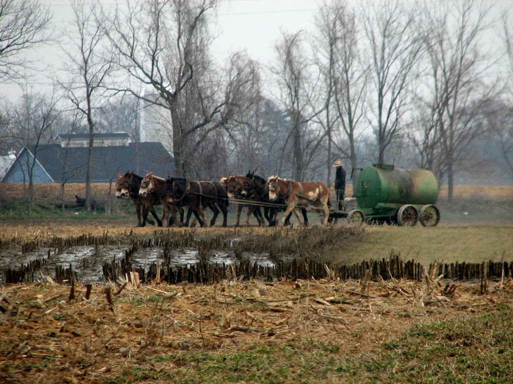 "Here we go a-manuring"